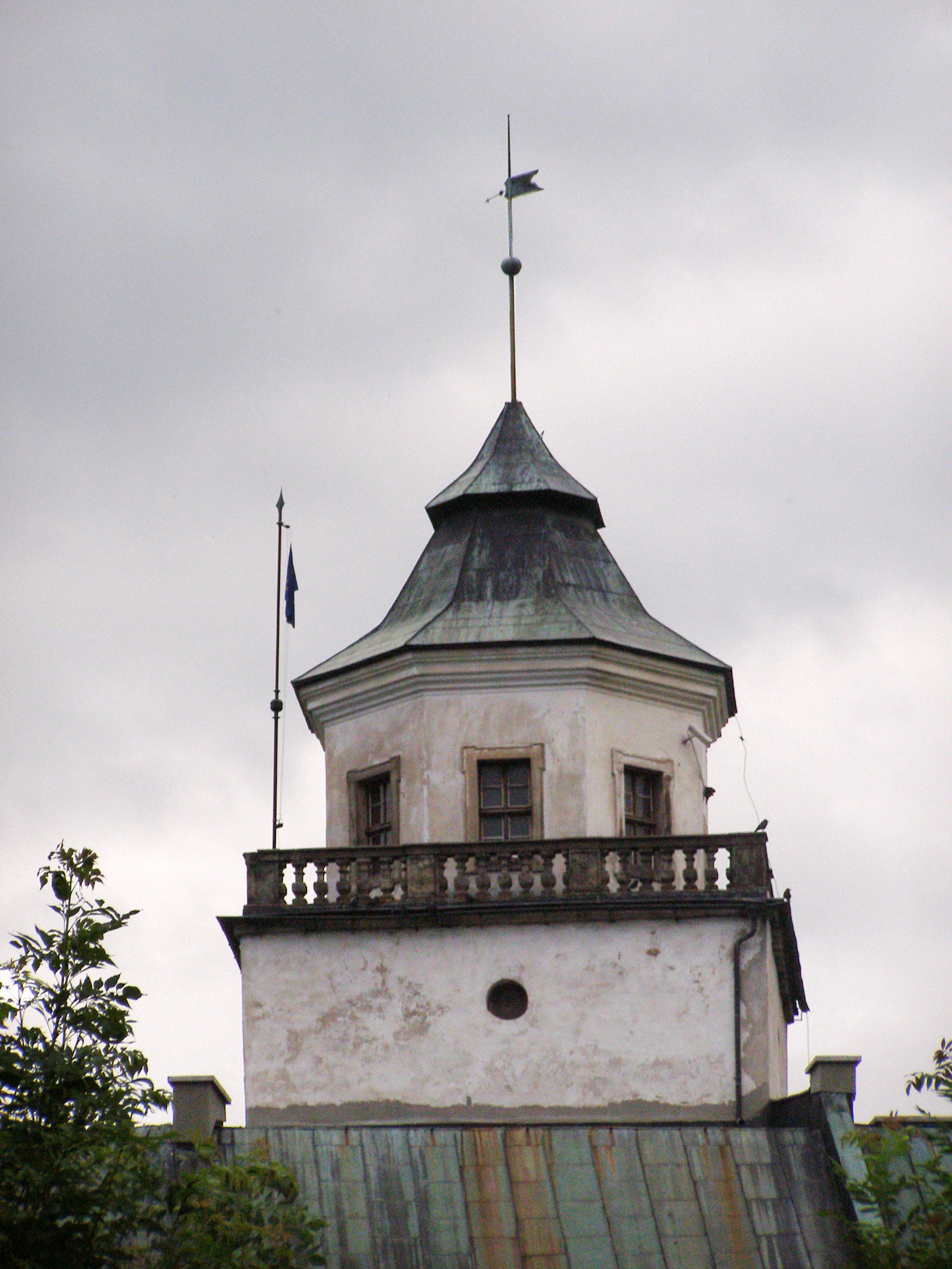 "Black Tower" in Międzylesie